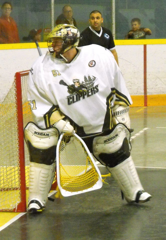 These images of Ontario Junior B Lacrosse Action action during the 2014 season are taken by Devan Mighton.